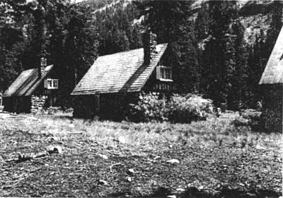 Stone employee cottages in the Munson Valley headquarters area of Crater Lake National Park, Oregon, United States.